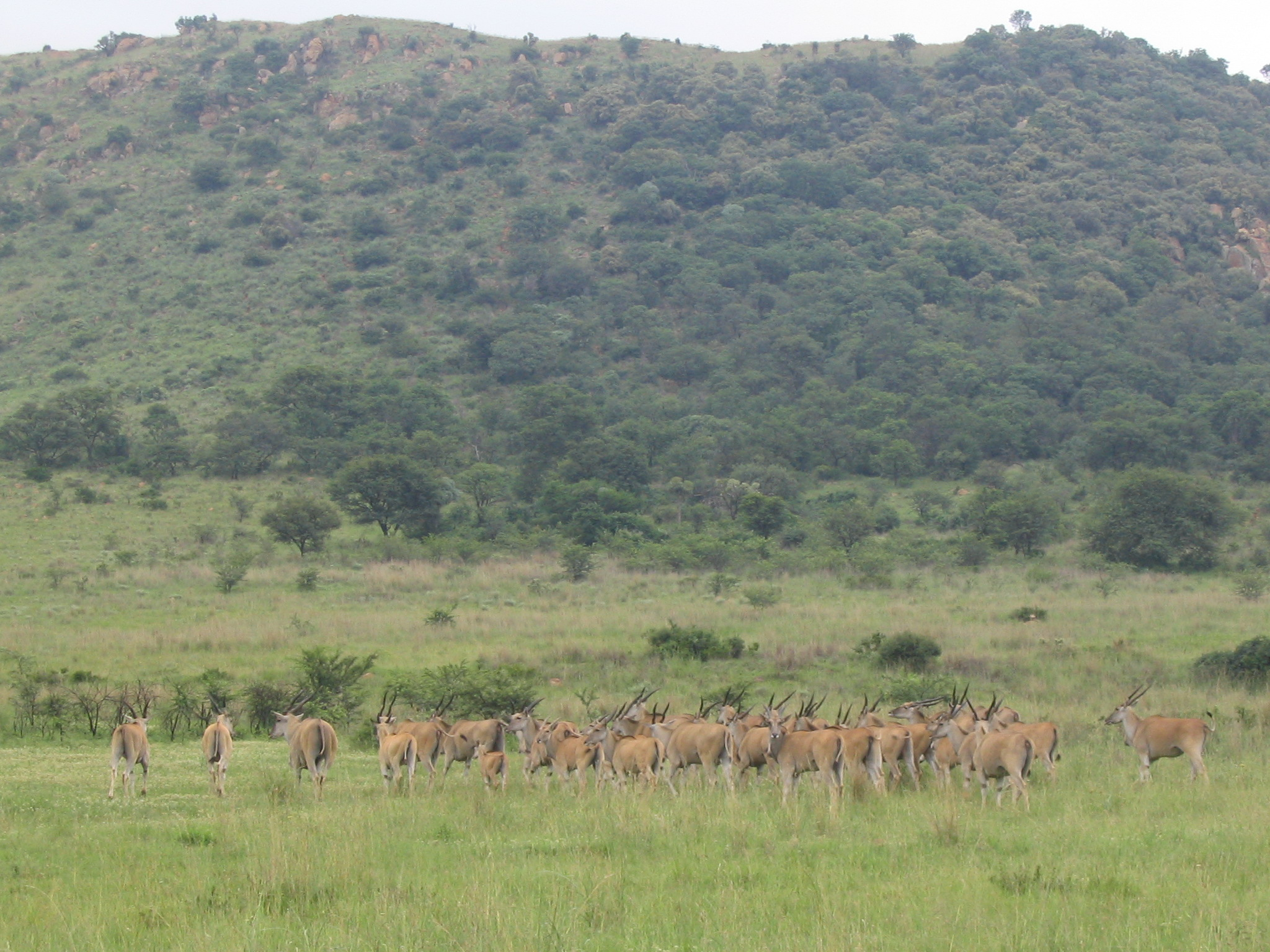 Suikerbosrand Nature Reserve - Eland Picture taken on 12/04/2004.